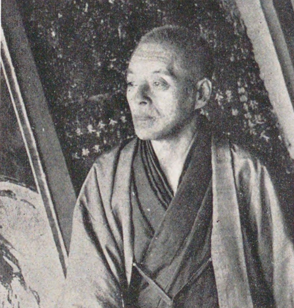 Suzuki Shōnen, a nihonga painter.